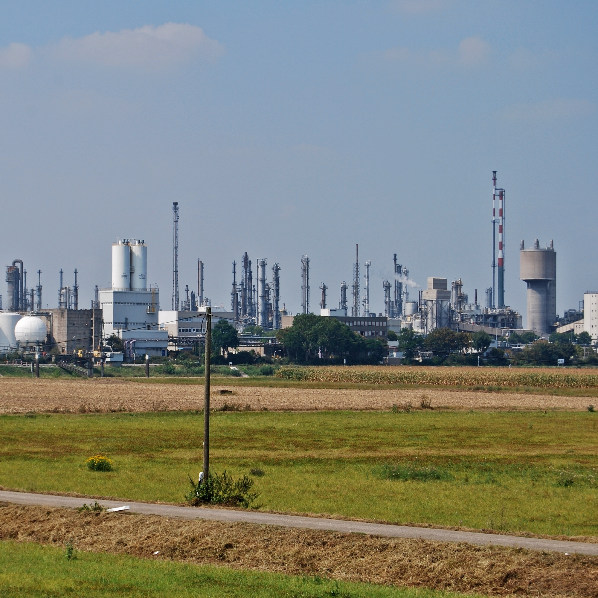 Part of BASF Ludwigshafen plant, Rhineland-Palatinate.